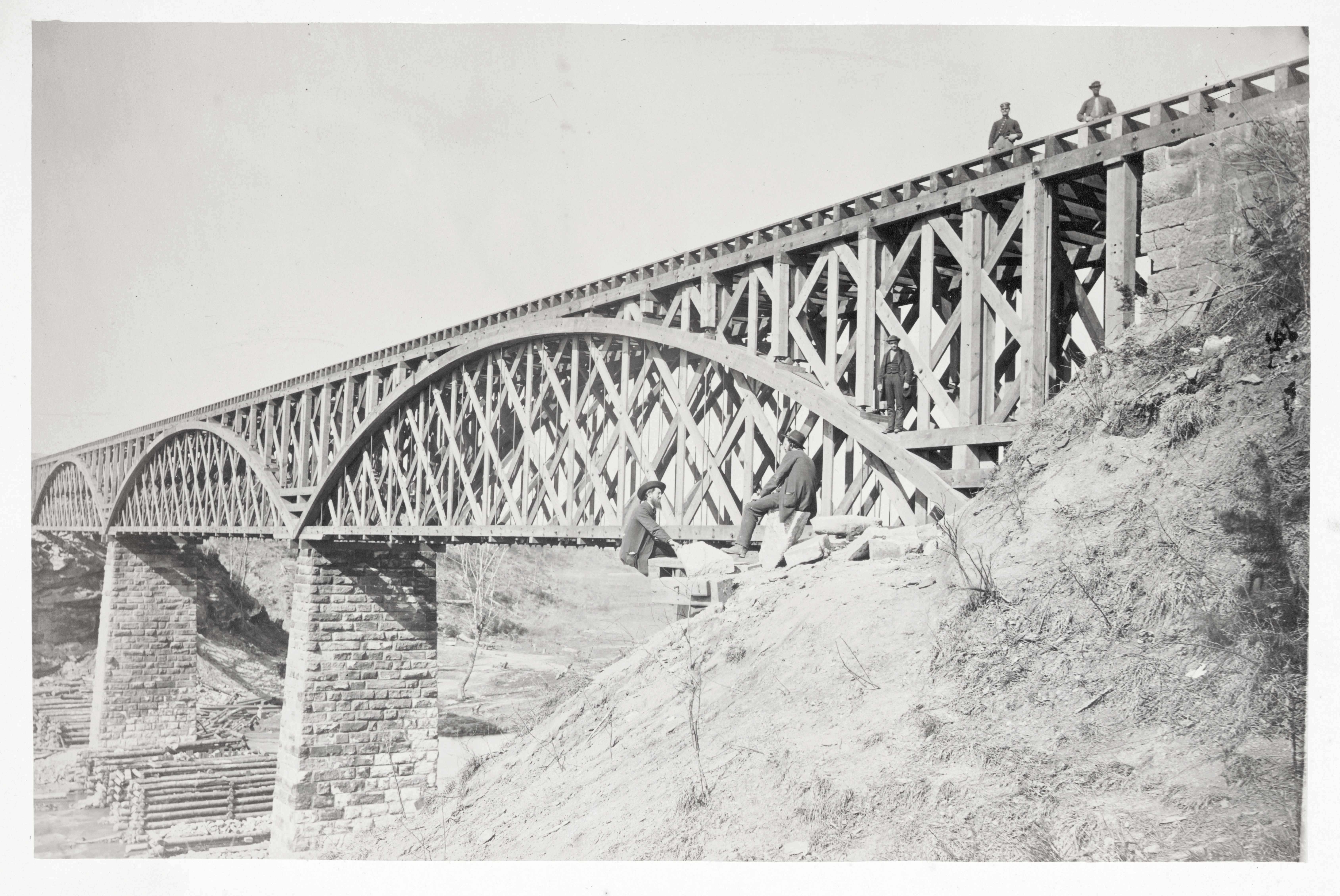 The photograph shows several men at the construction site of the Potomac Creek Bridge. Eben C. Smeed is seated at right.